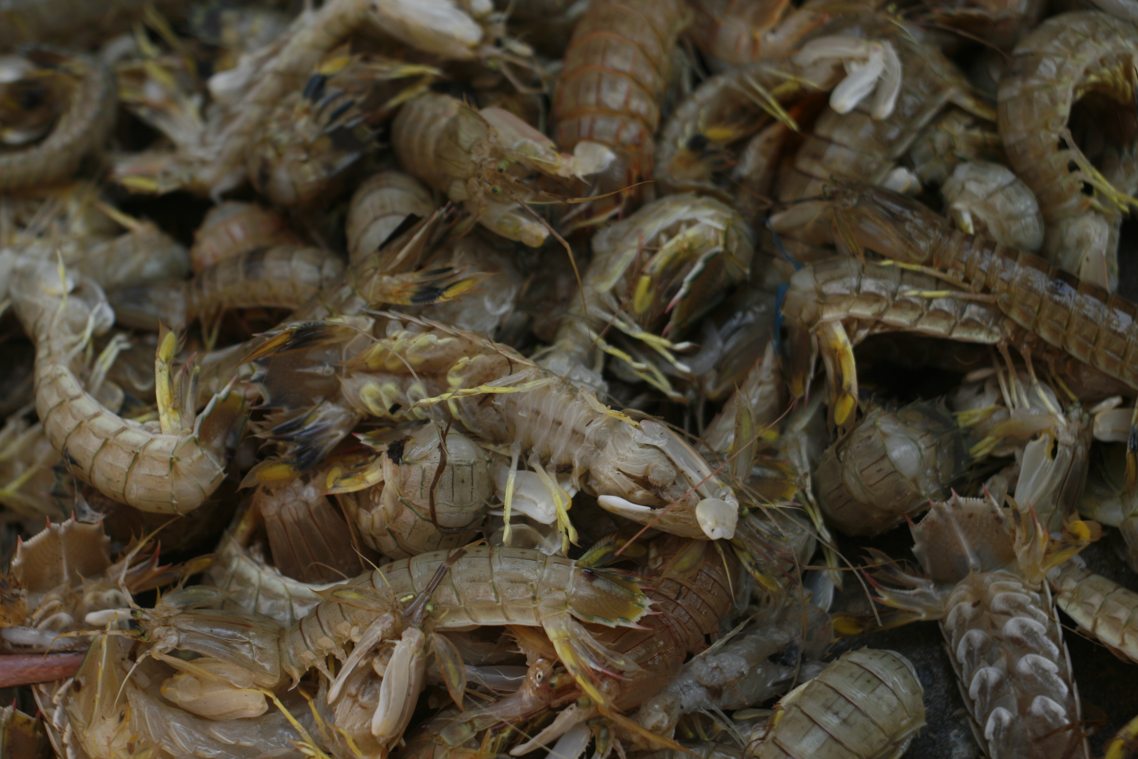 Mantis shrimps caught at Hậu Lộc, Thanh Hóa, Việt Nam.